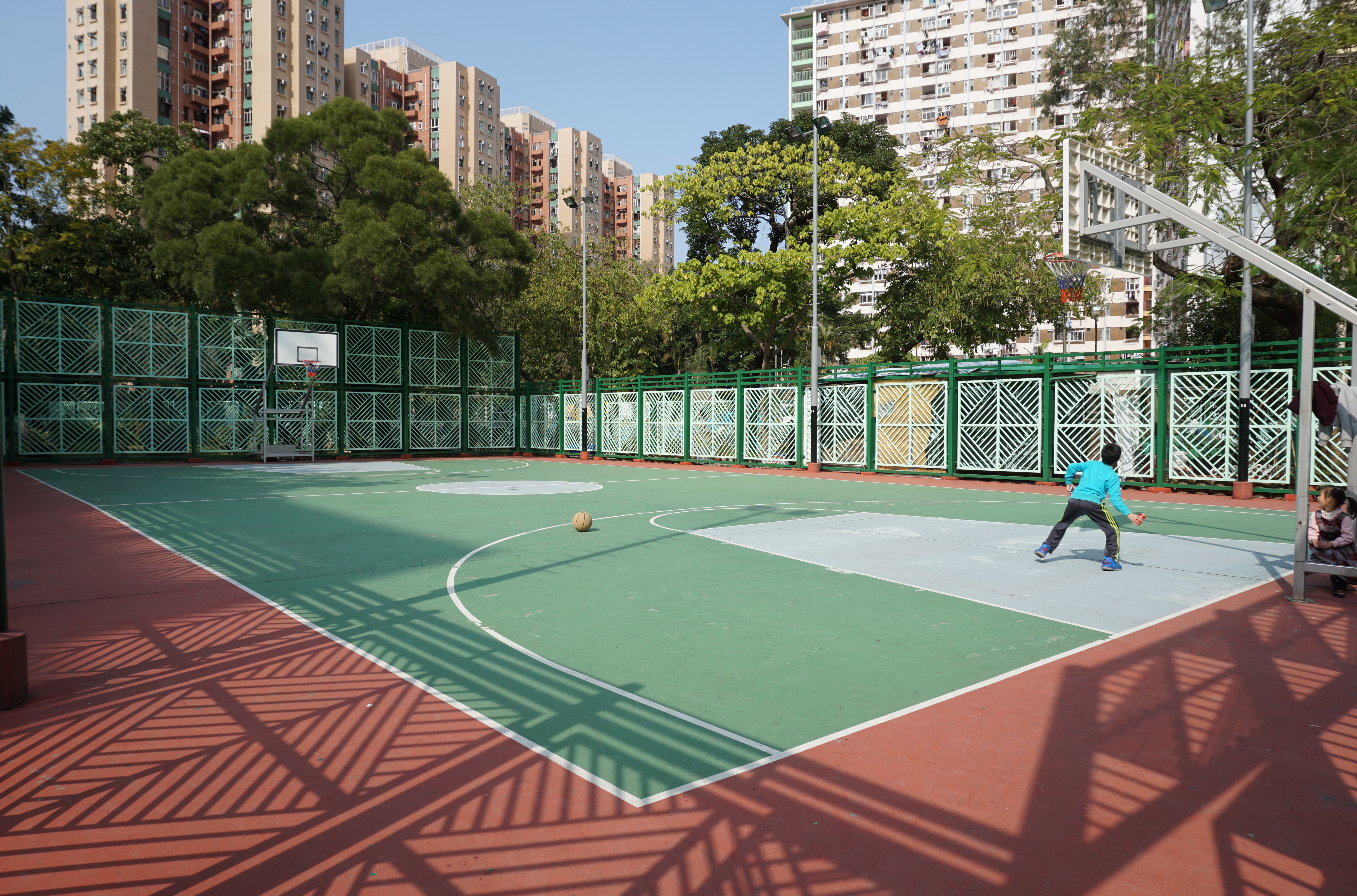 Jat Min Chuen in Sha Tin Wai, Hong Kong.